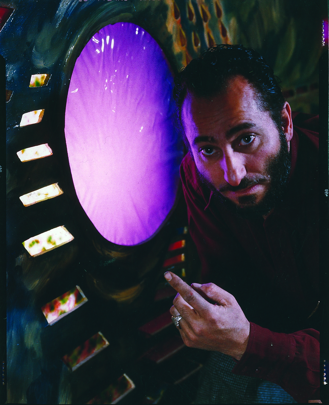 Ted's Master's Thesis paintings- the relationship between color and sound circa. 1945